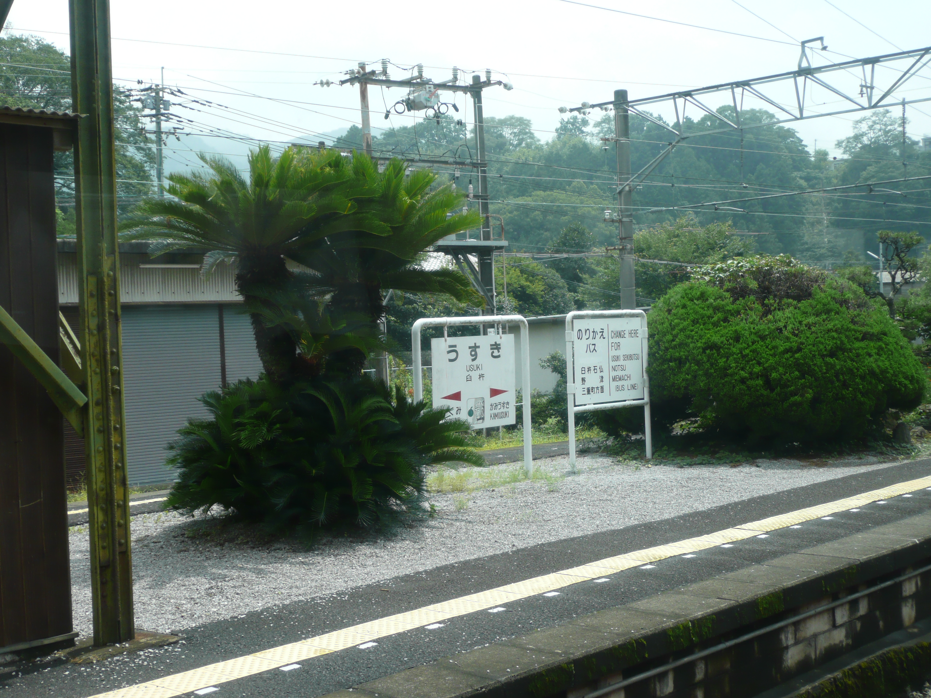 Usuki Station platform